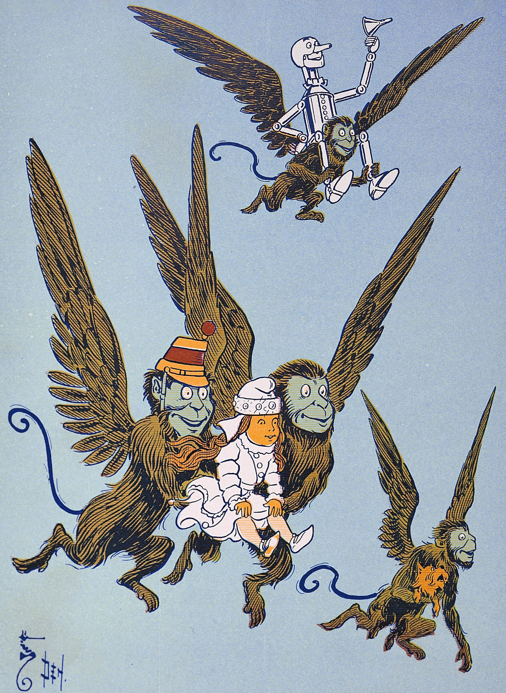 "The Monkeys caught Dorothy in their arms and flew away with her." An illustration by W. W. Denslow from the first edition of The Wonderful Wizard of Oz, also known as The Wizard of Oz, a 1900 children's novel by L. Frank Baum.